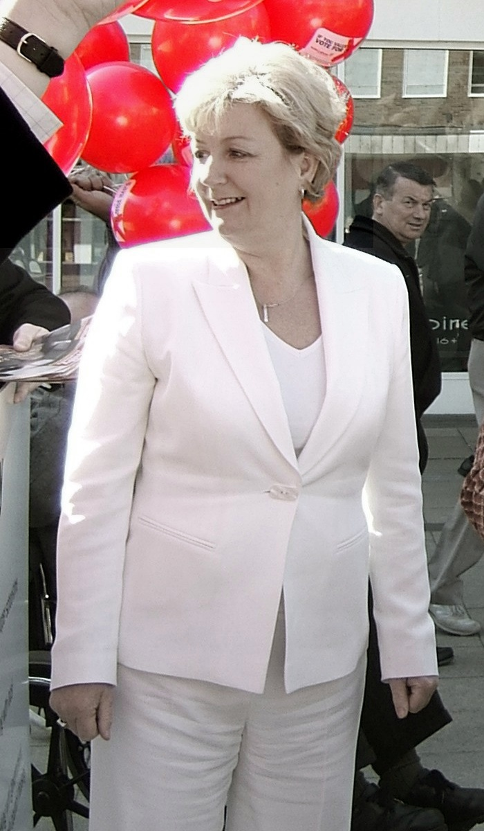 Laura Moffatt, MP for Crawley, launching the 2006 local election campaign in Crawley.